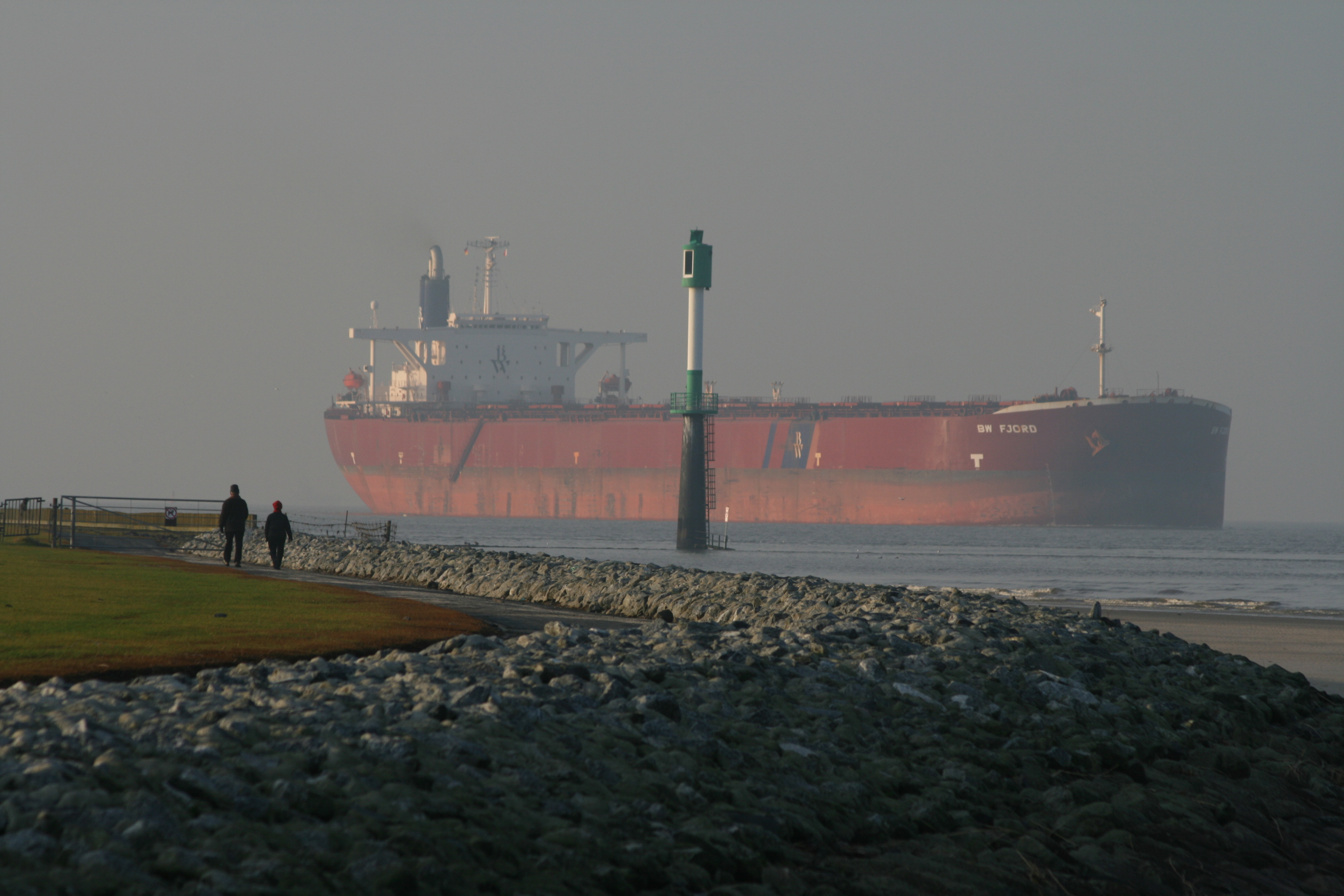 BW Fjord an Glameyer Stack 2007-12-15 IMO 8314471 MMSI 371391000 Callsign 3ECK9 Width:57m Length:332m